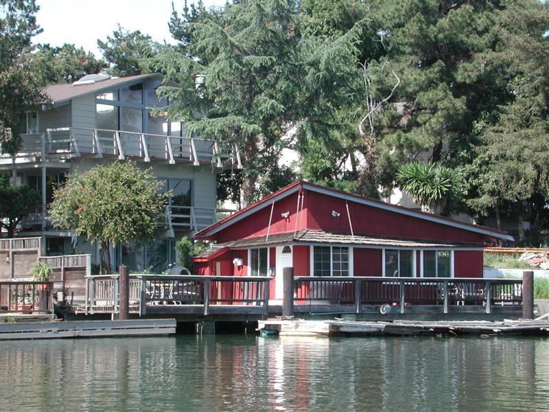 Water Front Homes of Alameda